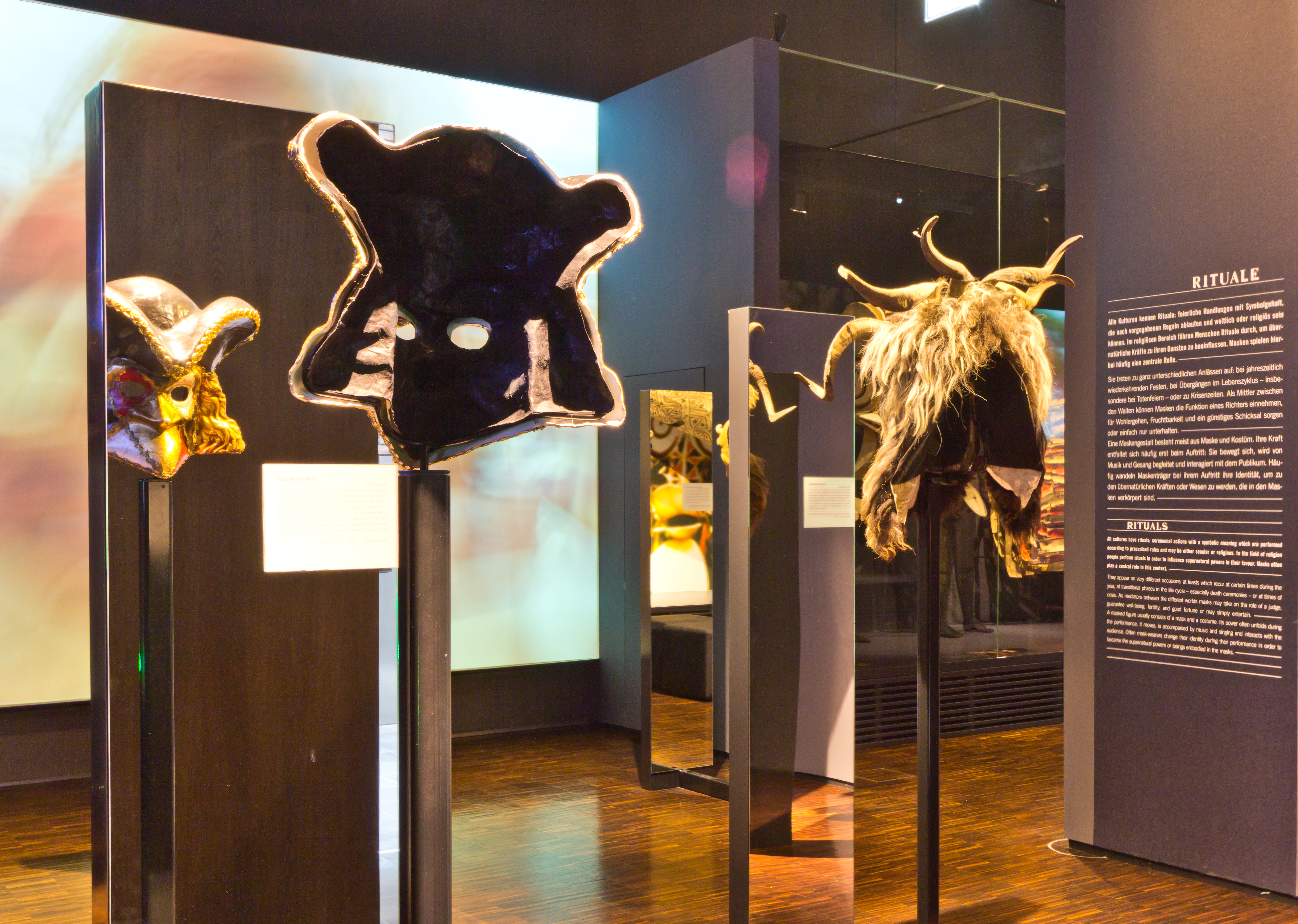 Rautenstrauch-Joest Museum Native nameRautenstrauch-Joest-MuseumLocationCäcilienstraße 29-3350667 Cologne, North Rhine-WestphaliaGermanyCoordinates50° 56′ 04.7″ N, 6° 57′ 01.91″ E Established1901Web Authority control : Q2133582 VIAF: 130110994 ISNI: 0000 0001 0660 2967 LCCN: n50047757 GND: 2018801-8 SUDOC: 029463408 WorldCat institution QS:P195,Q2133582